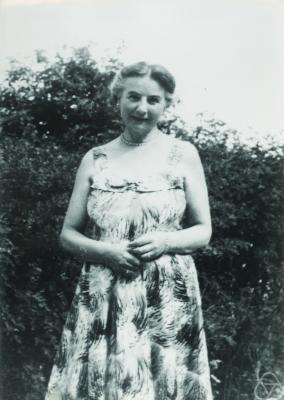 Marta Cramér, wife of mathematician Harald Cramér.